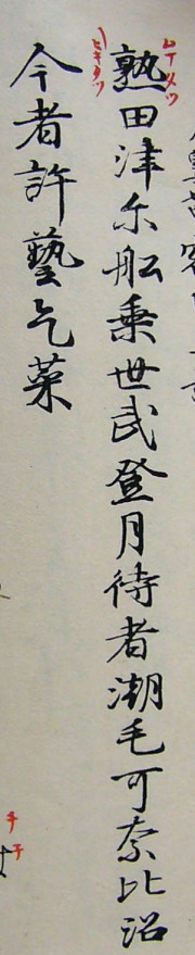 Scan of verse from anthology Man’yōshū written with man'yōgana